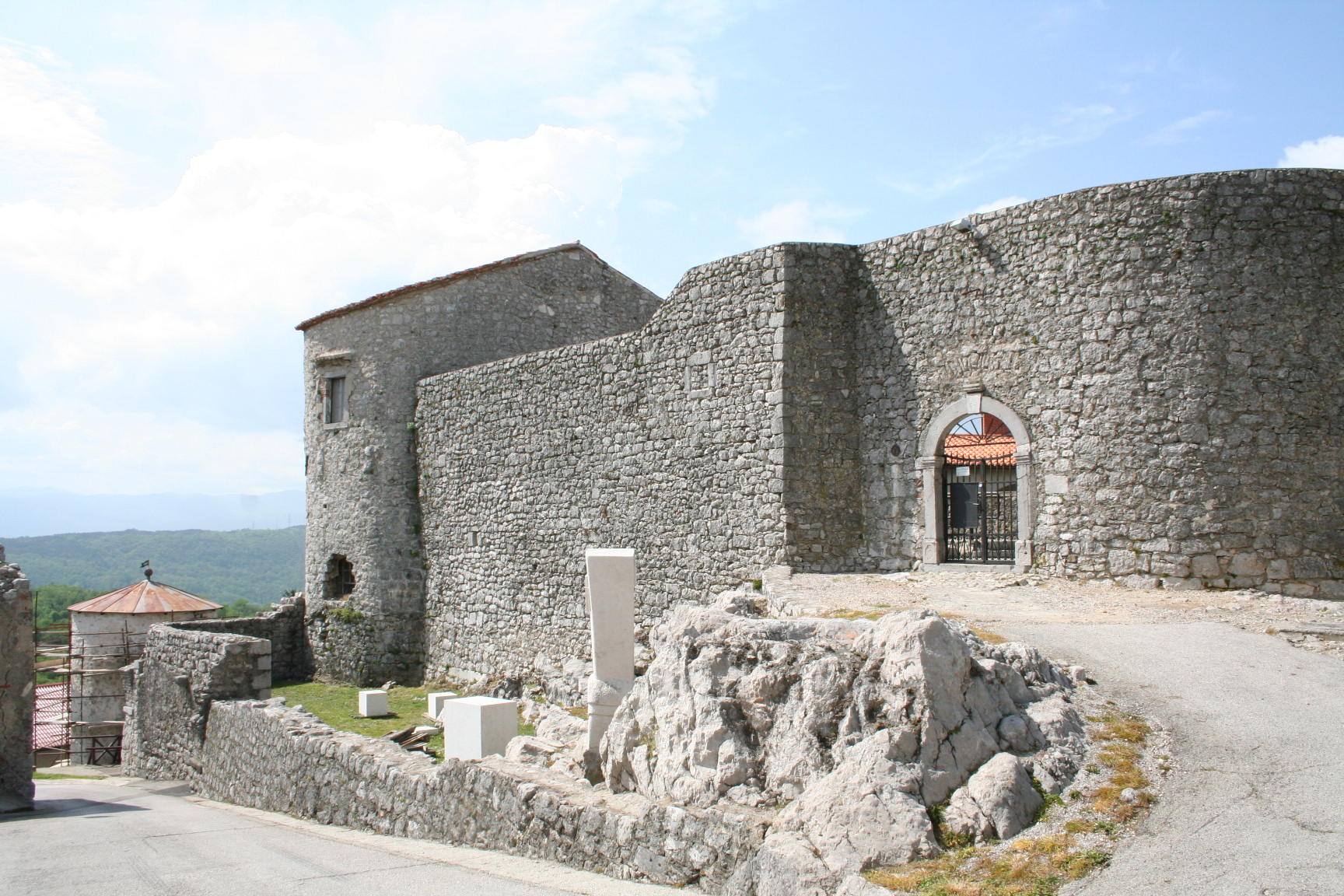 Grobnik Castle in April 2014.